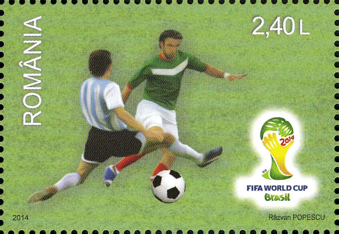 Stamps of Romania, 2014